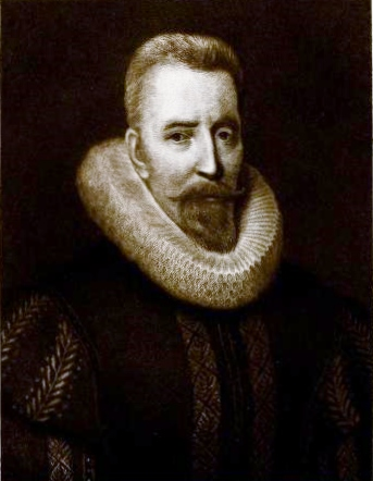 Portrait of Sir Thomas Hamilton, 1st Earl of Haddington. Copied from